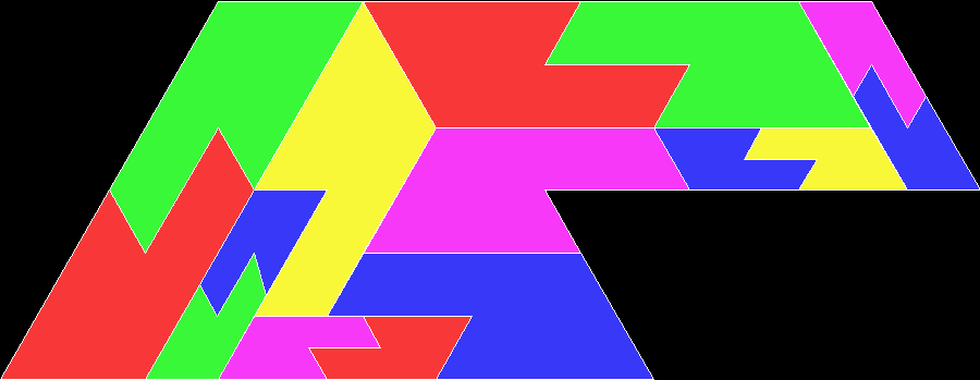 A rep-tile hexadrafter, or shape created from six 30-60-90° triangles that can be divided into smaller copies of itself.